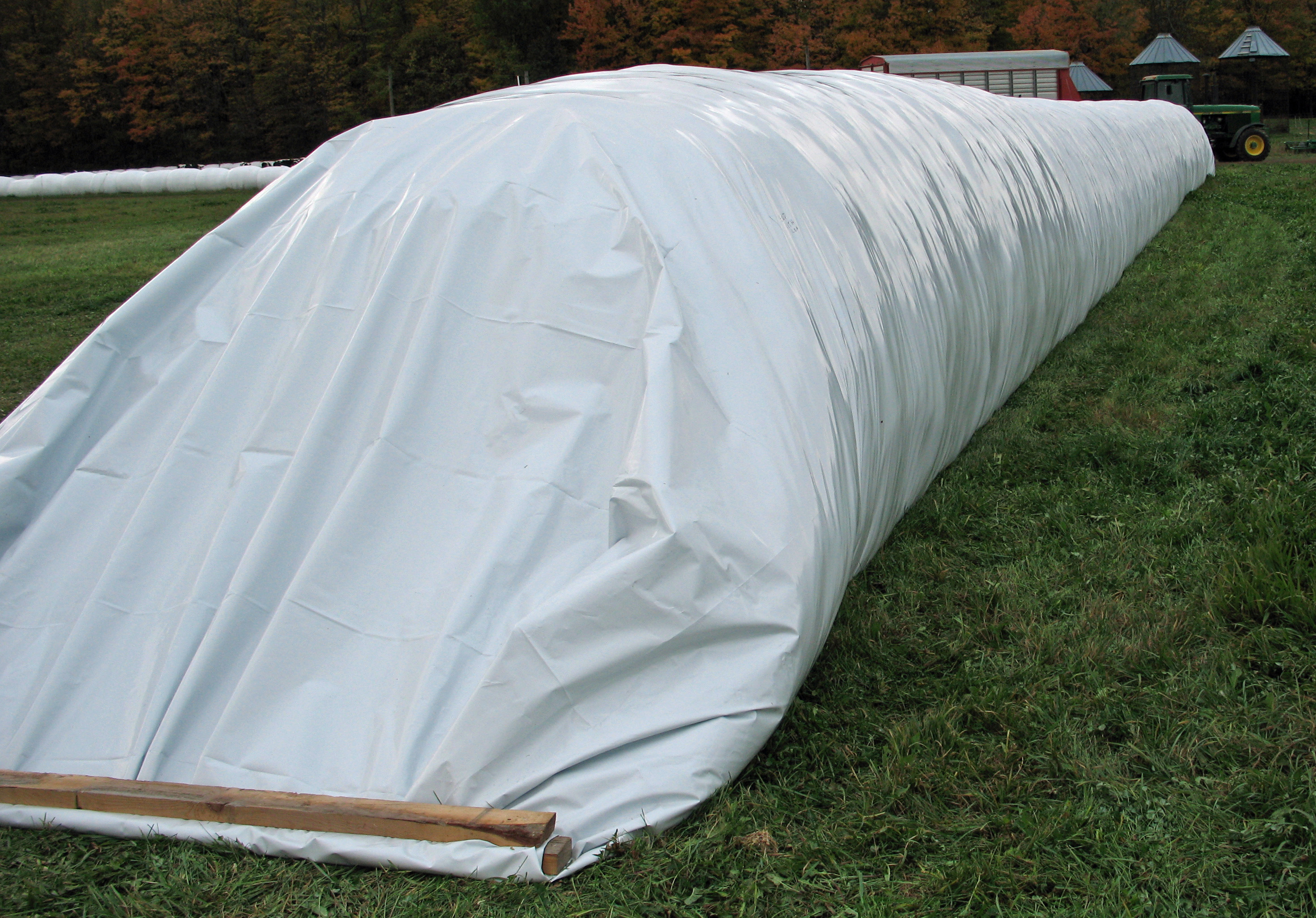 8 ft diameter by 150 ft silo bag, shown just after filling, rolling the end of the bag shut, and nailing boards across the opening to keep it closed. – Ensiled October 3rd, 2009 on the 35-cow dairy farm of Ken Mahalko (Kenneth Mahalko) in Chippewa County, WI, USA.